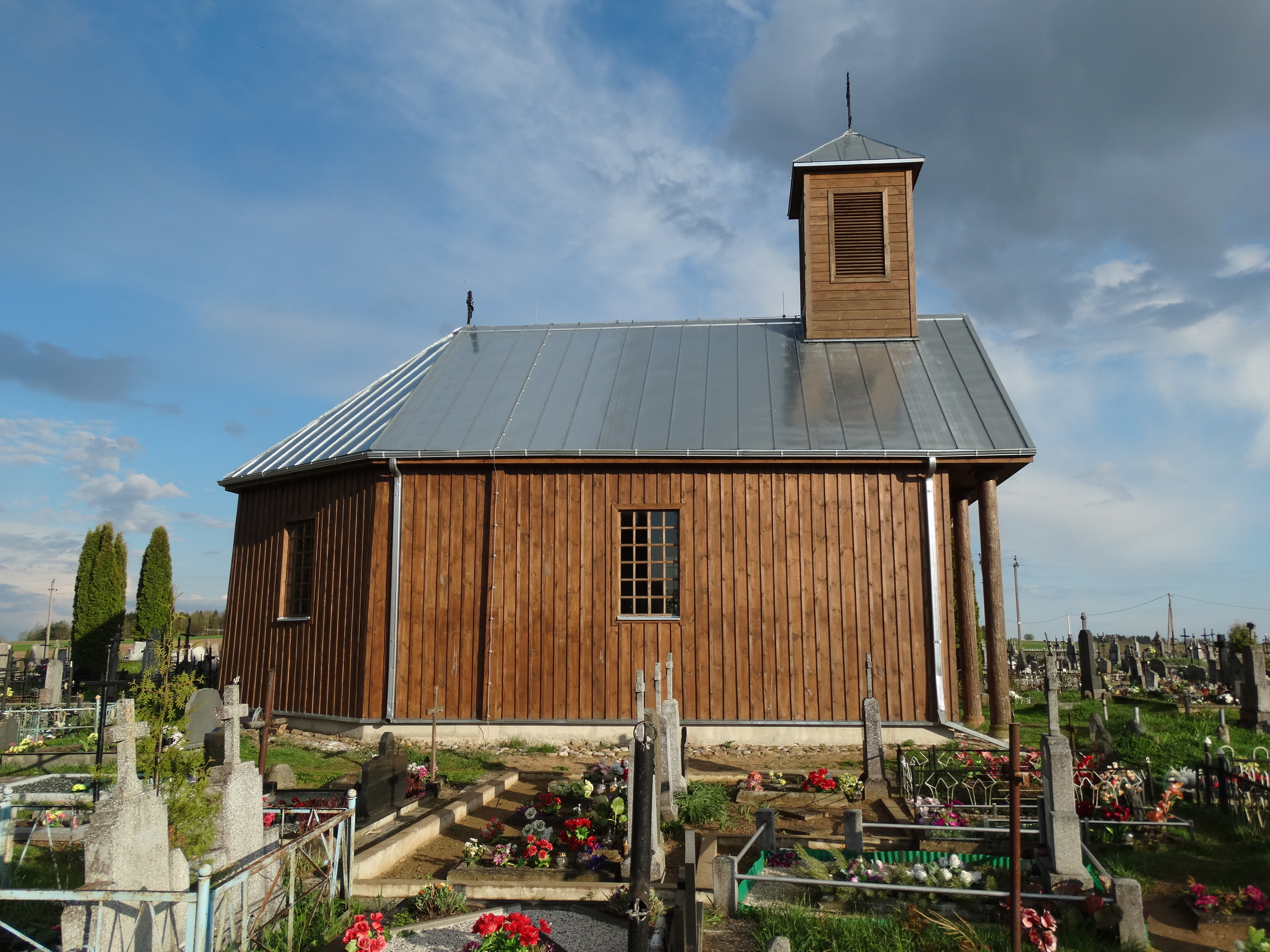 Chapel, Tabariškės, Šalčininkai District, Lithuania